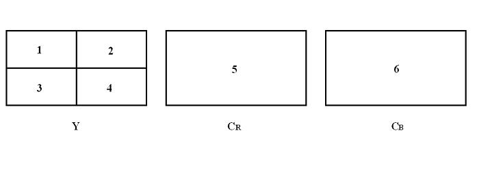 CIf blocks